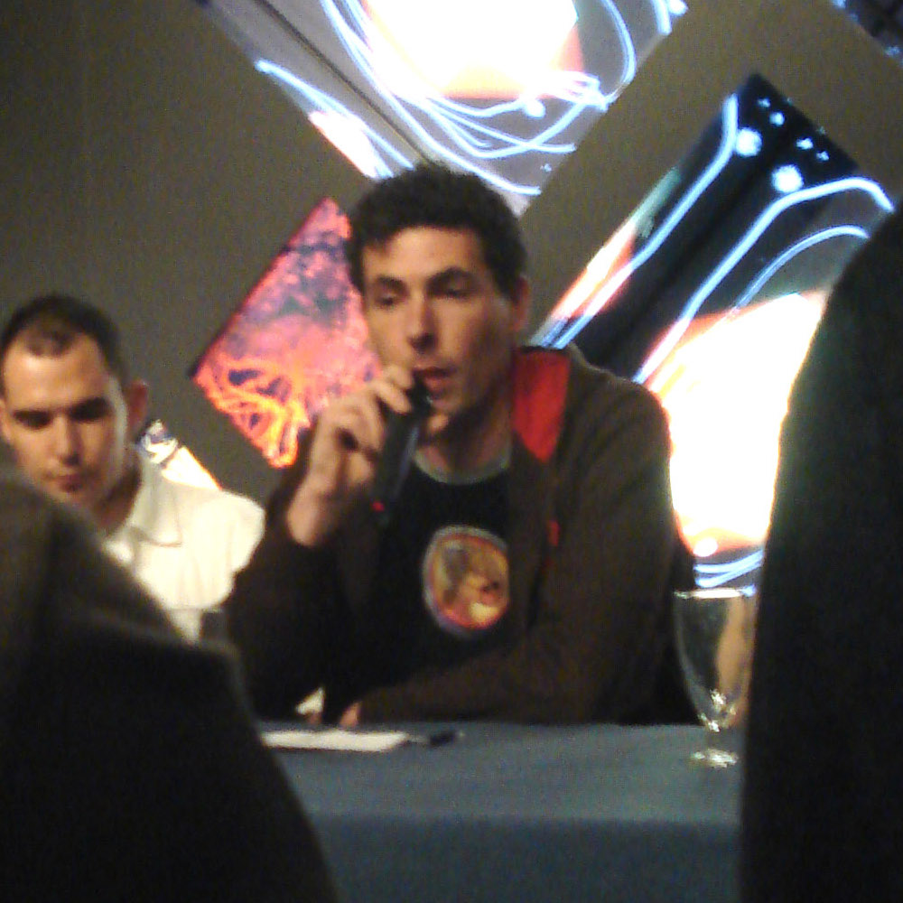 Photo cutout of journalist Pep Sánchez during a talk about video games in Barcelona.